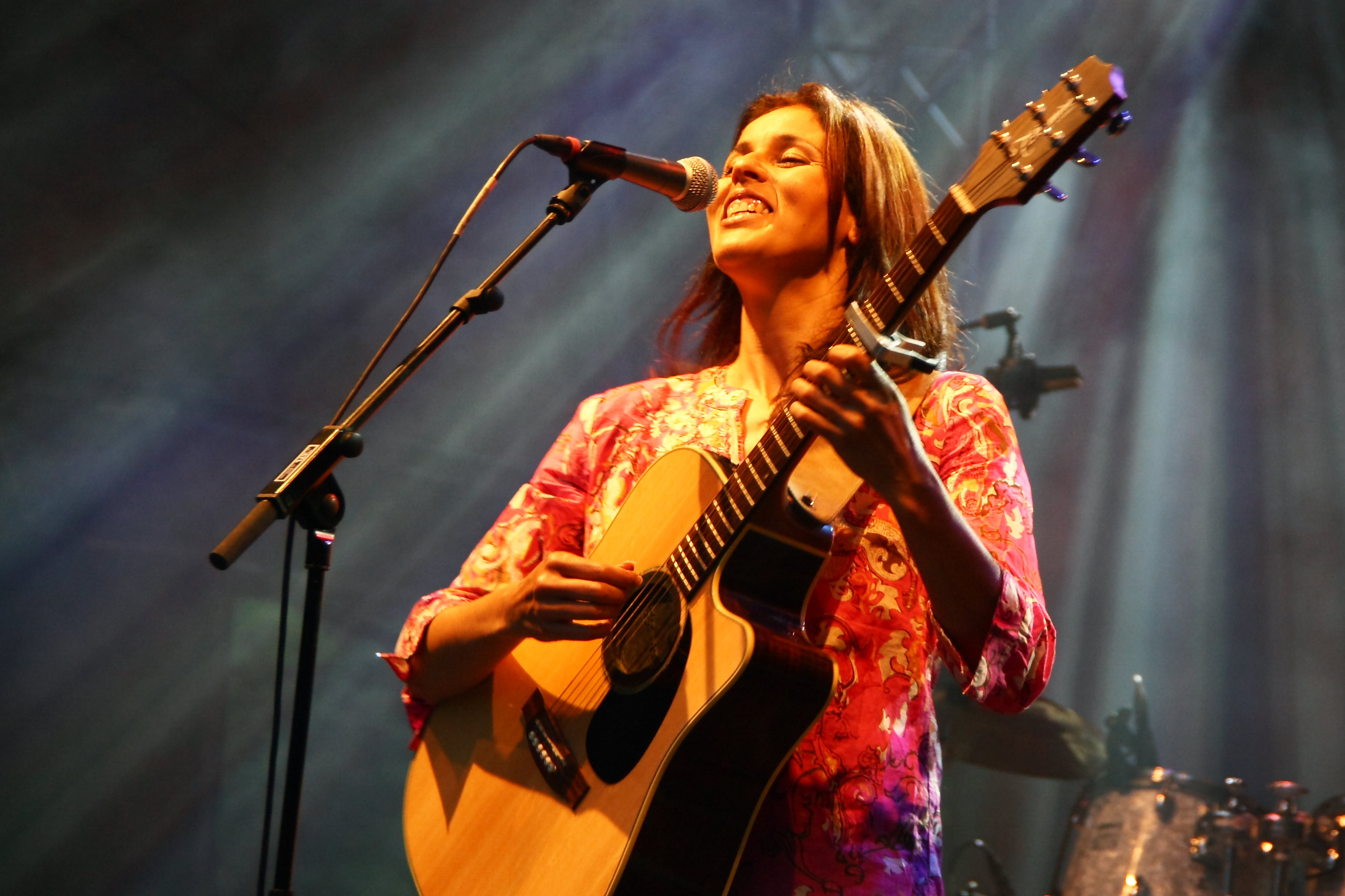 Souad Mass and her Band at TFF Rudolstadt 2013.